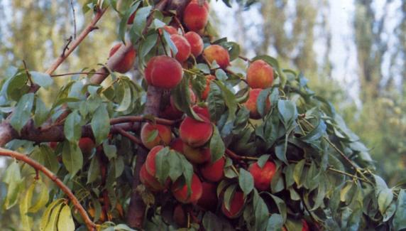 Igdir Peach